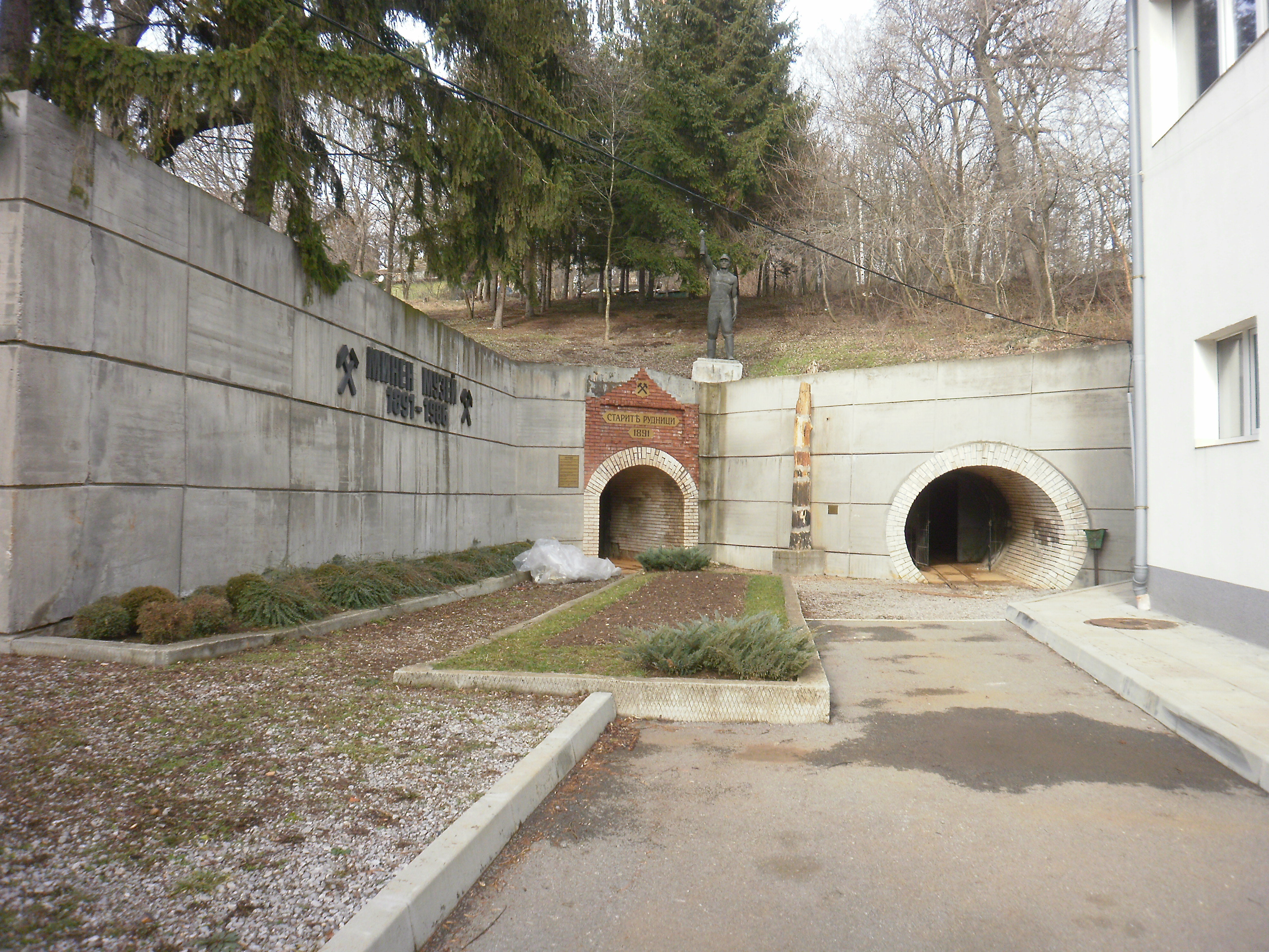 Mining museums of Pernik, Bulgaria.